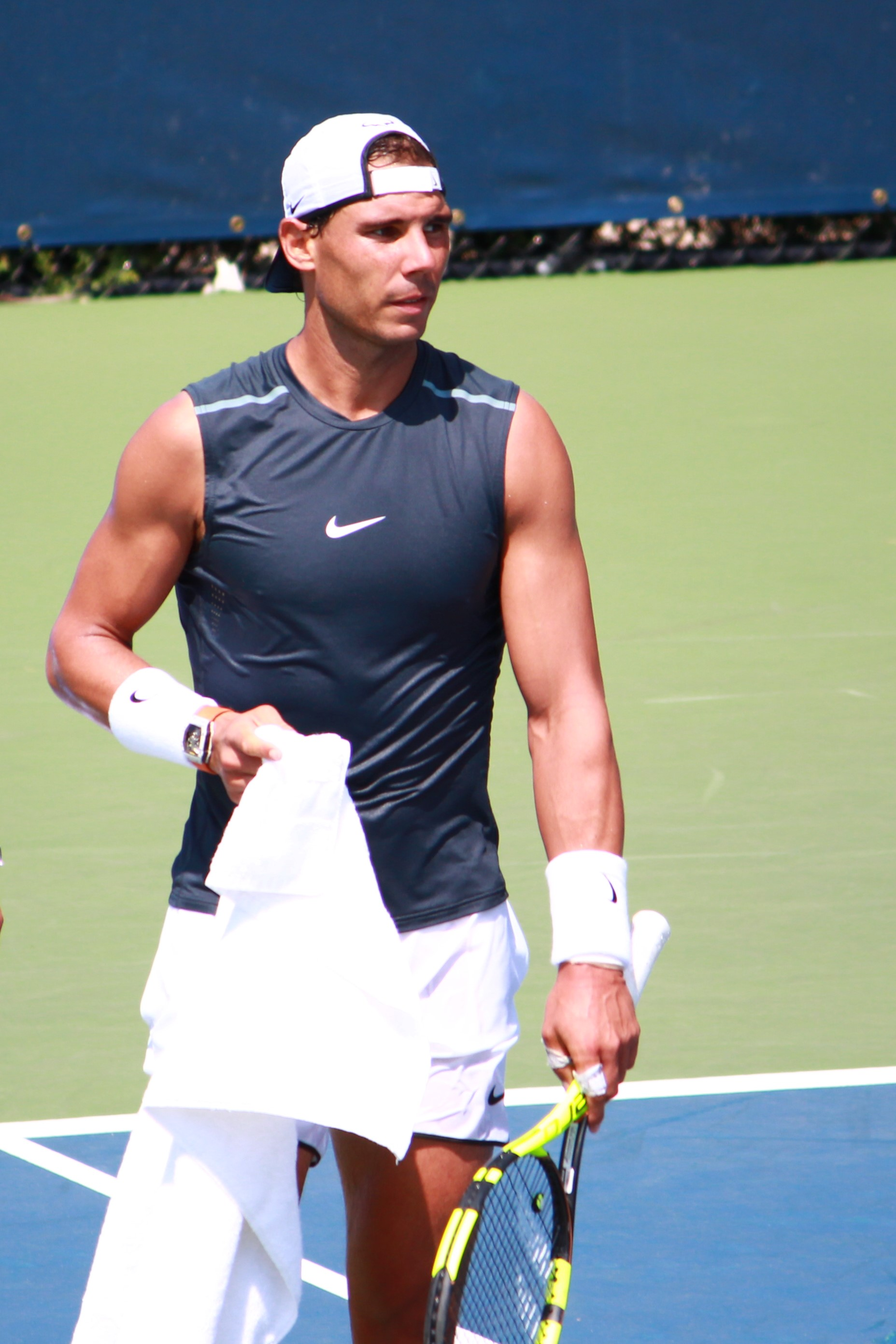 2016 US Open